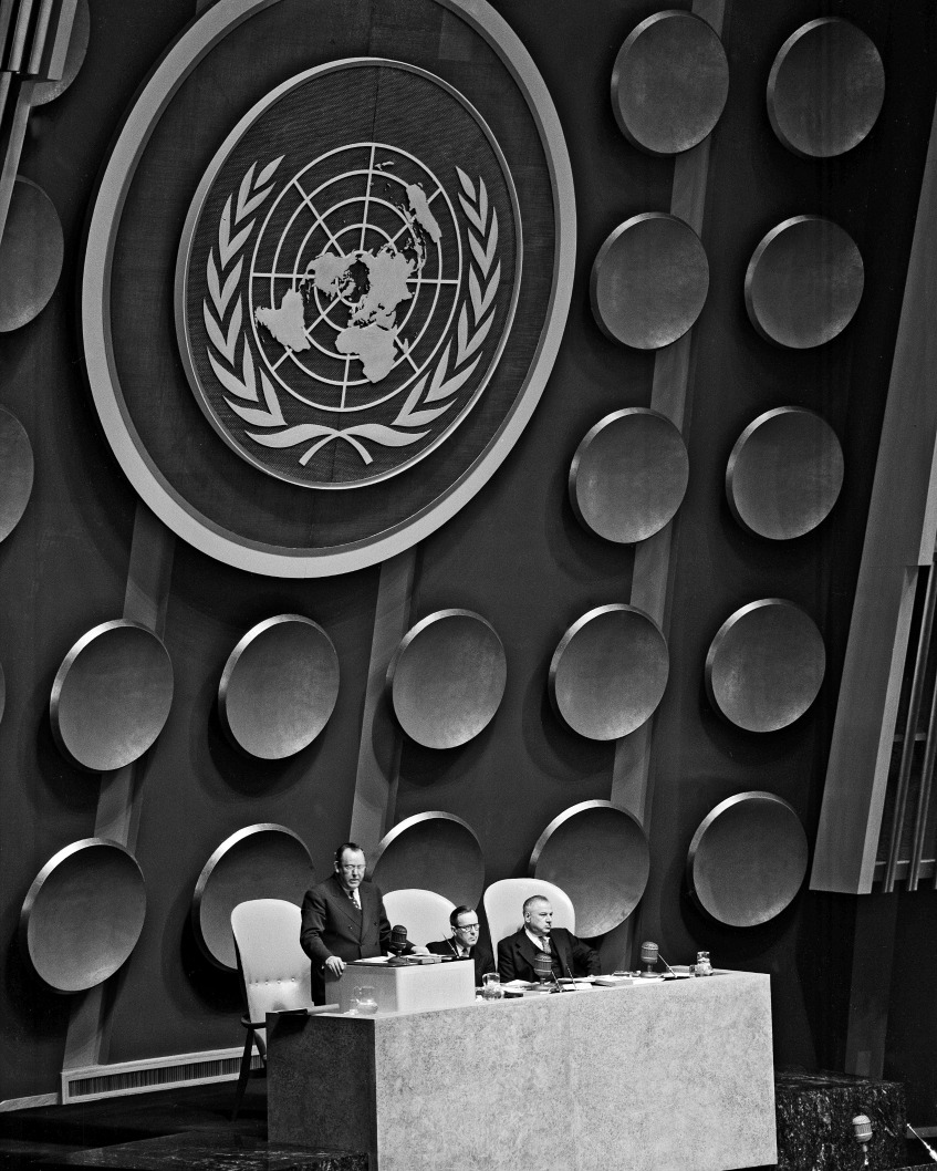 1952 Tygrve Lie Resigns